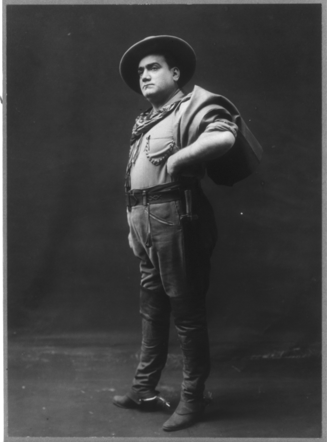 Enrico Caruso (1873-1921), in Puccini's opera La fanciulla del West (The Girl of the Golden West), full length portrait, standing, facing left